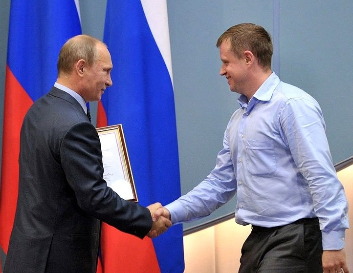 Vladimir Putin awards a commendation to Maxim Solovyov for his services to developing physical culture and sport.